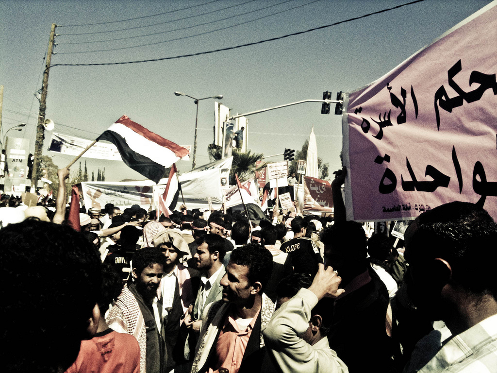 Protest in Sanaa, Yemen (February 3, 2011)